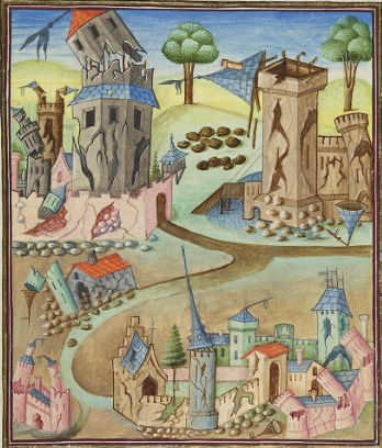 Illumination from Livre de la Vigne nostre Seigneur (Bodleian Library, Oxford MS. Douce 134)